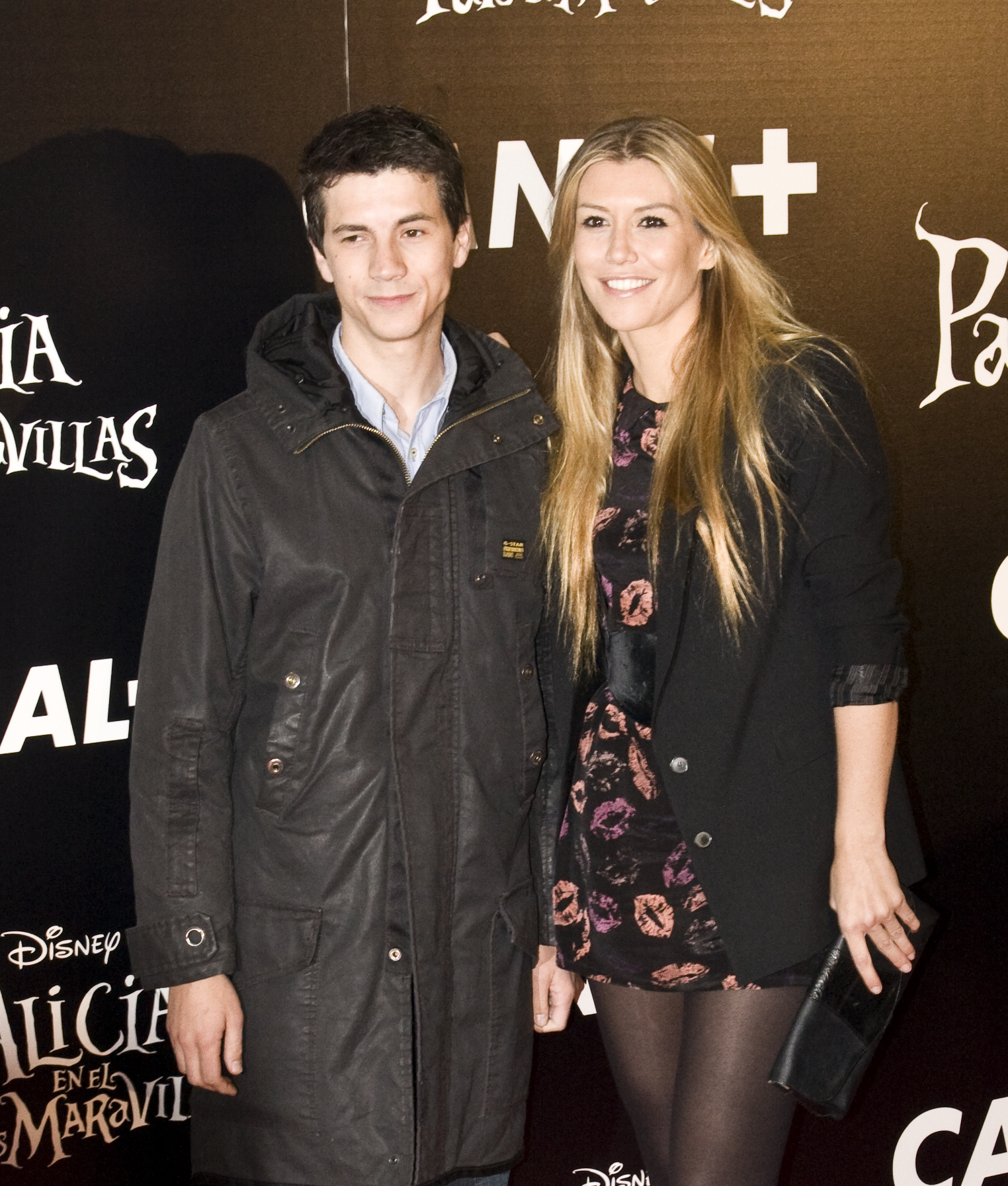 Marco Martínez and Raquel Meroño Spanish actors at the photocall of Alice in Wonderland in 2010.